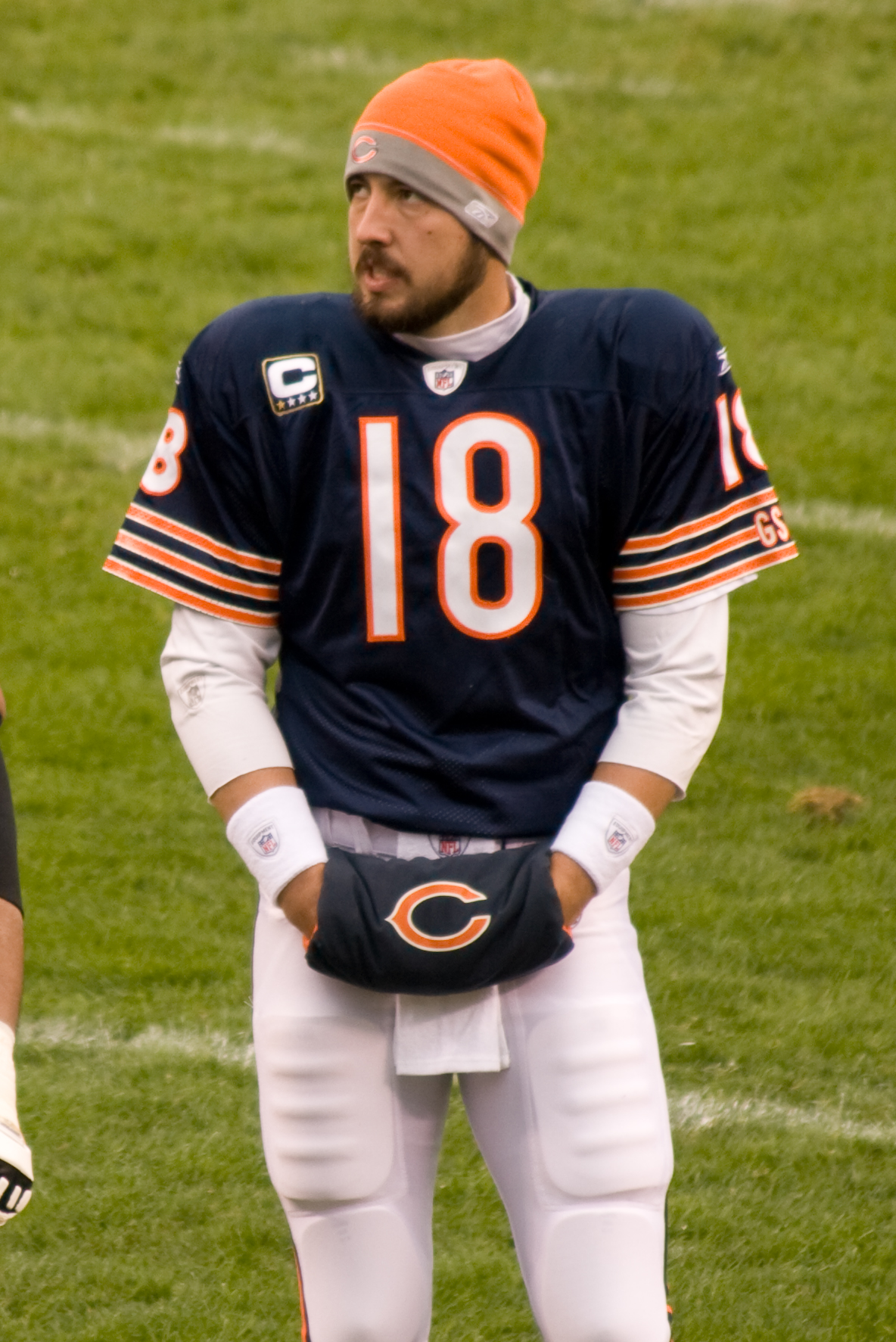 Kyle Orton of the Chicago Bears sporting a neckbeard